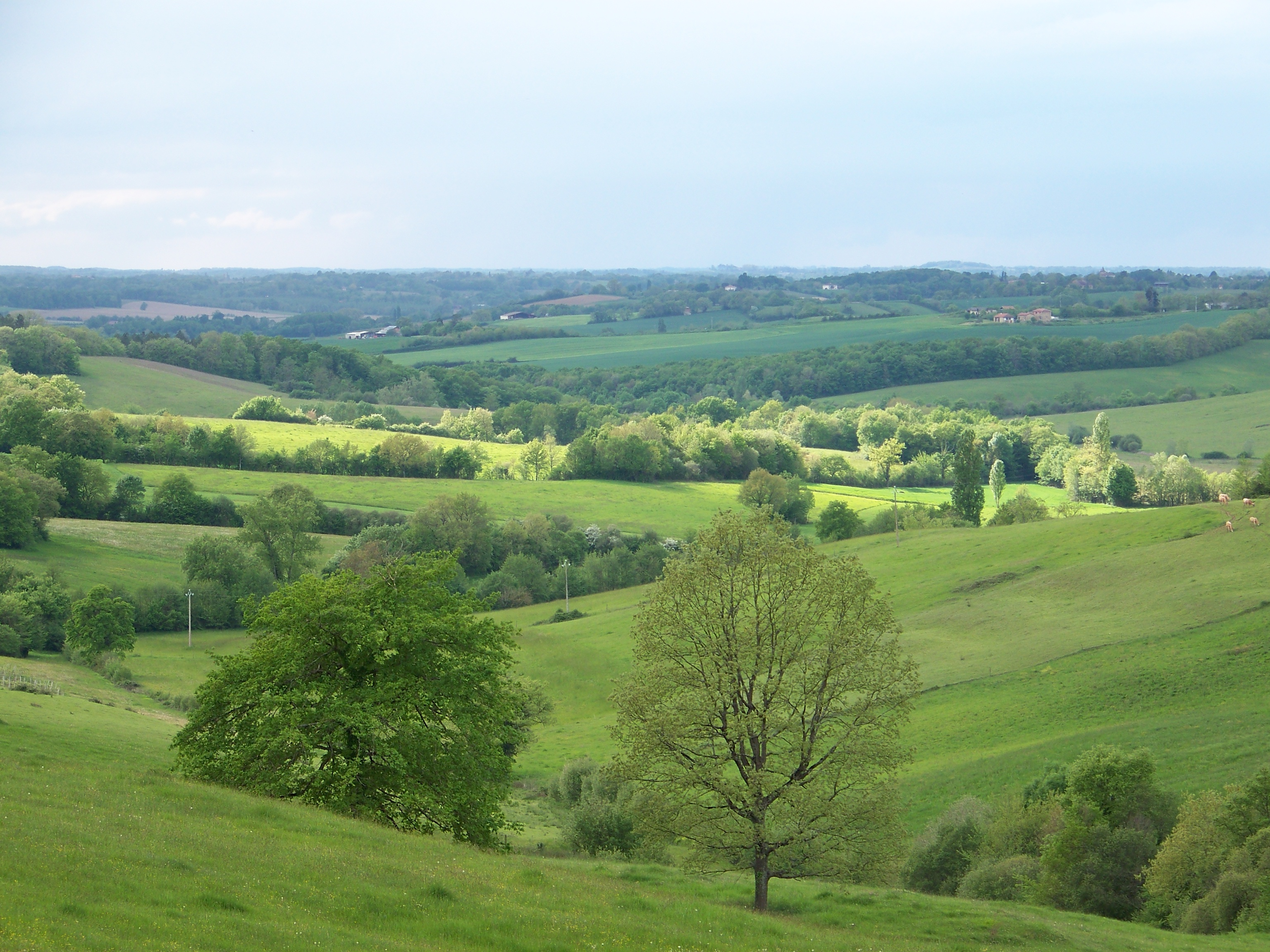 View Gers (Bas-Armagnac) from the road leading up to Saint-Pierre-d'Aubézies